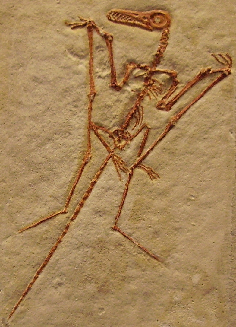 Cast of a headless R. muensteri specimen originally attributed to R. longicaudus, Oxford University Museum of Natural History. The head has been reconstructed for this cast